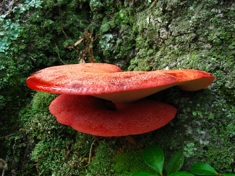 Fistulina hepatica